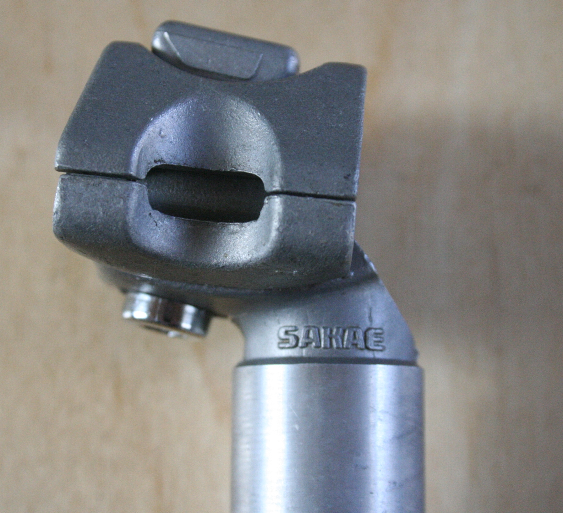 Sakae Seatpost